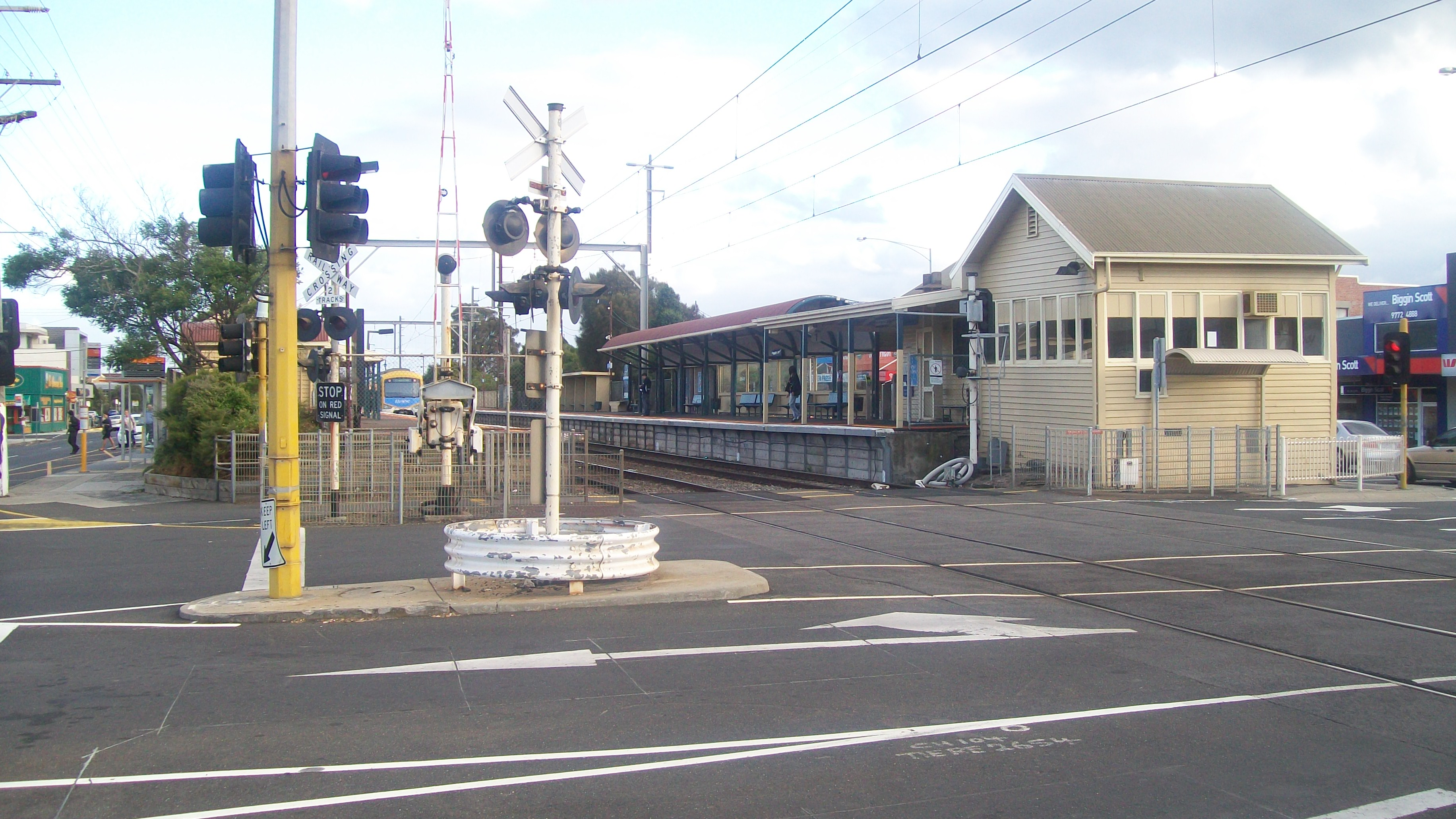 Chelsea railway station, Melbourne